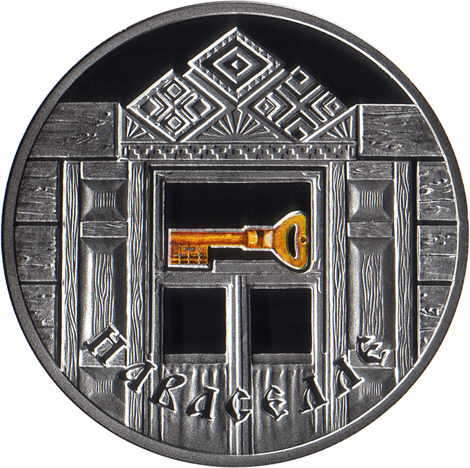 Belarusian silver 20 roubles 2008. House-Warming.